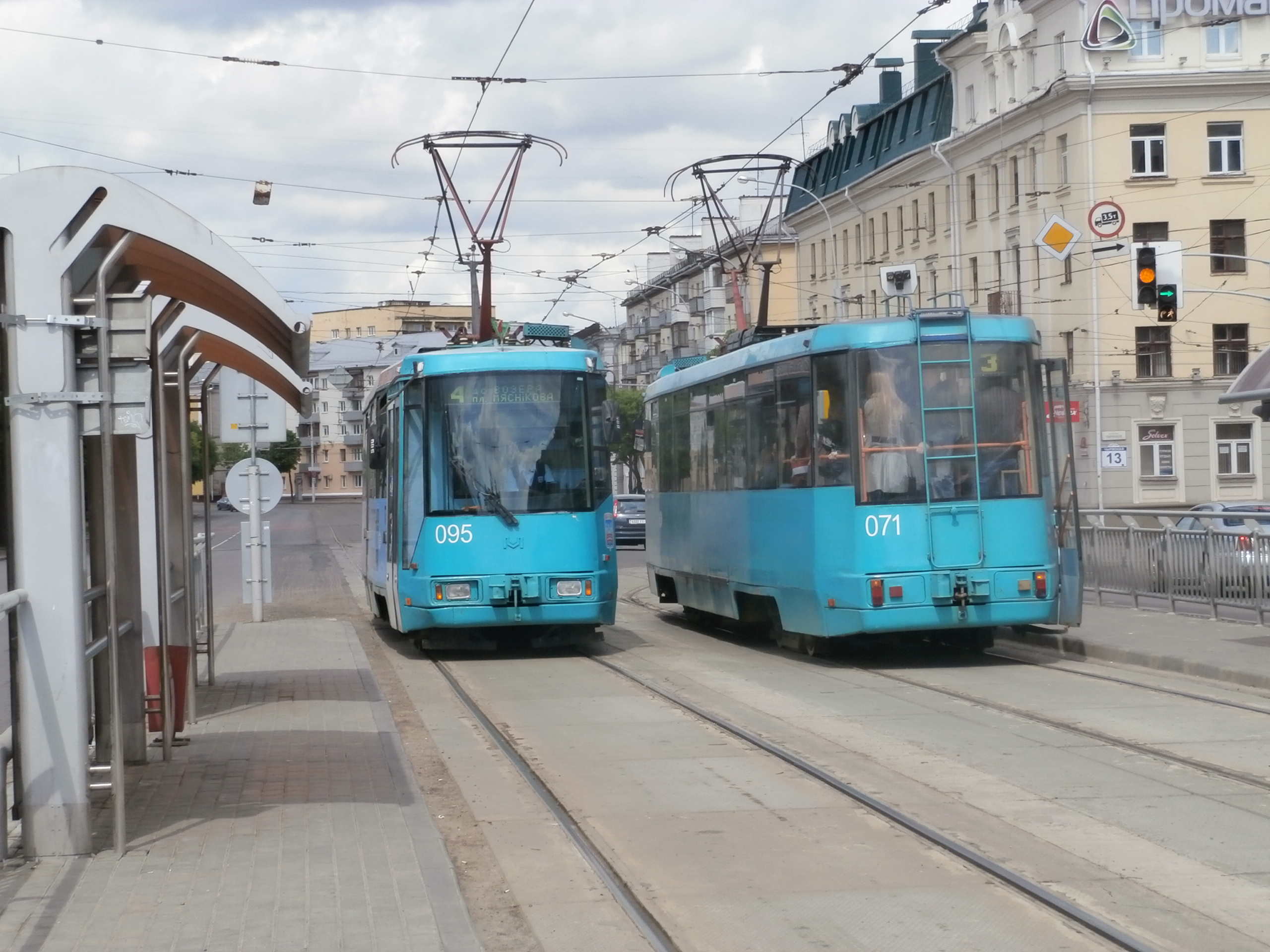 Trams 095 and 071 at Chyrvonaya Stop Minsk 11 May 2014